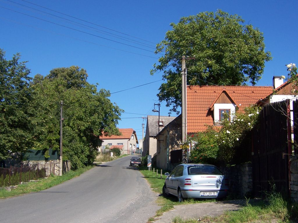 Mořina, Trněný Újezd